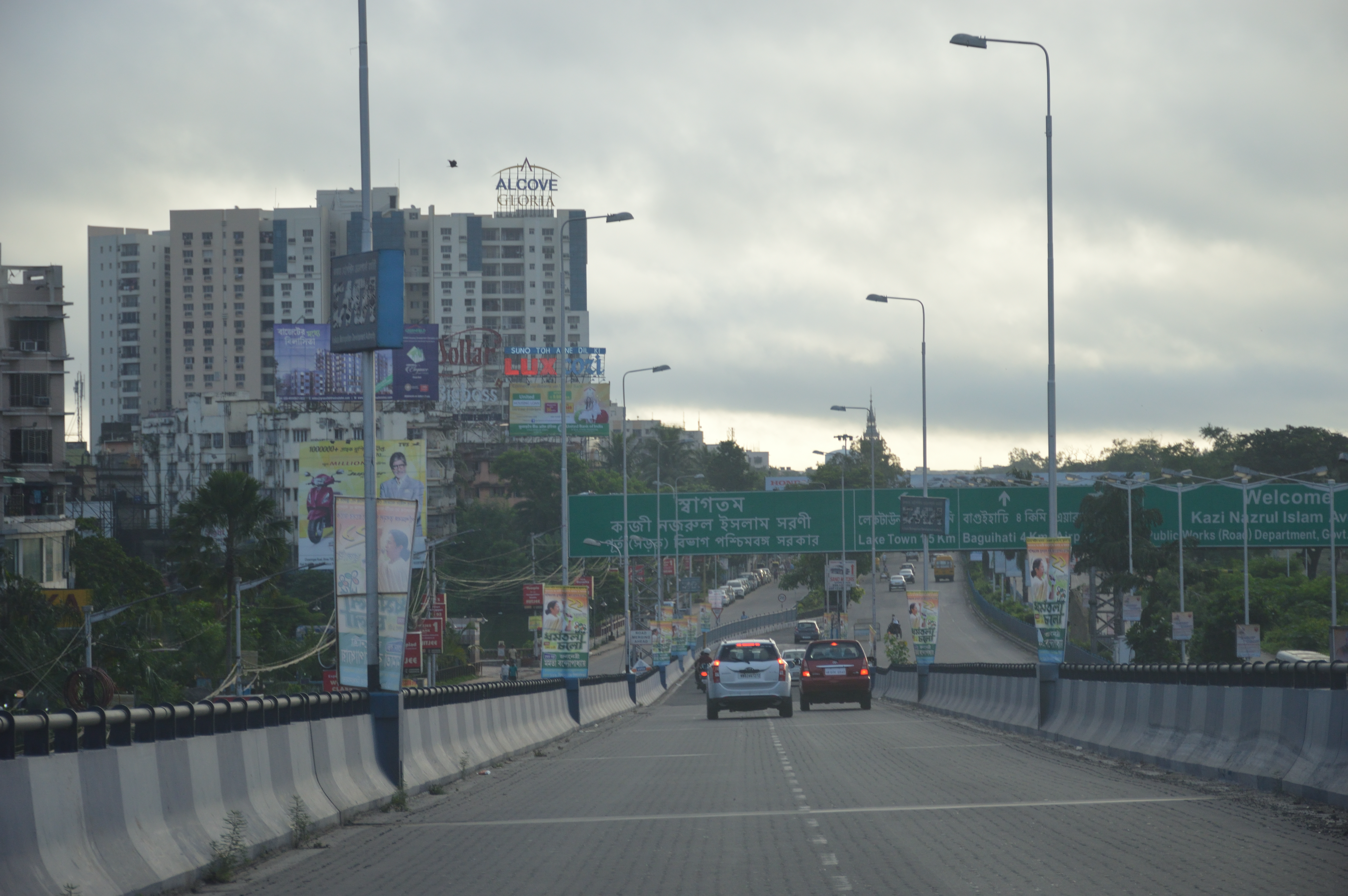 This photograph has been taken in greater Kolkata.